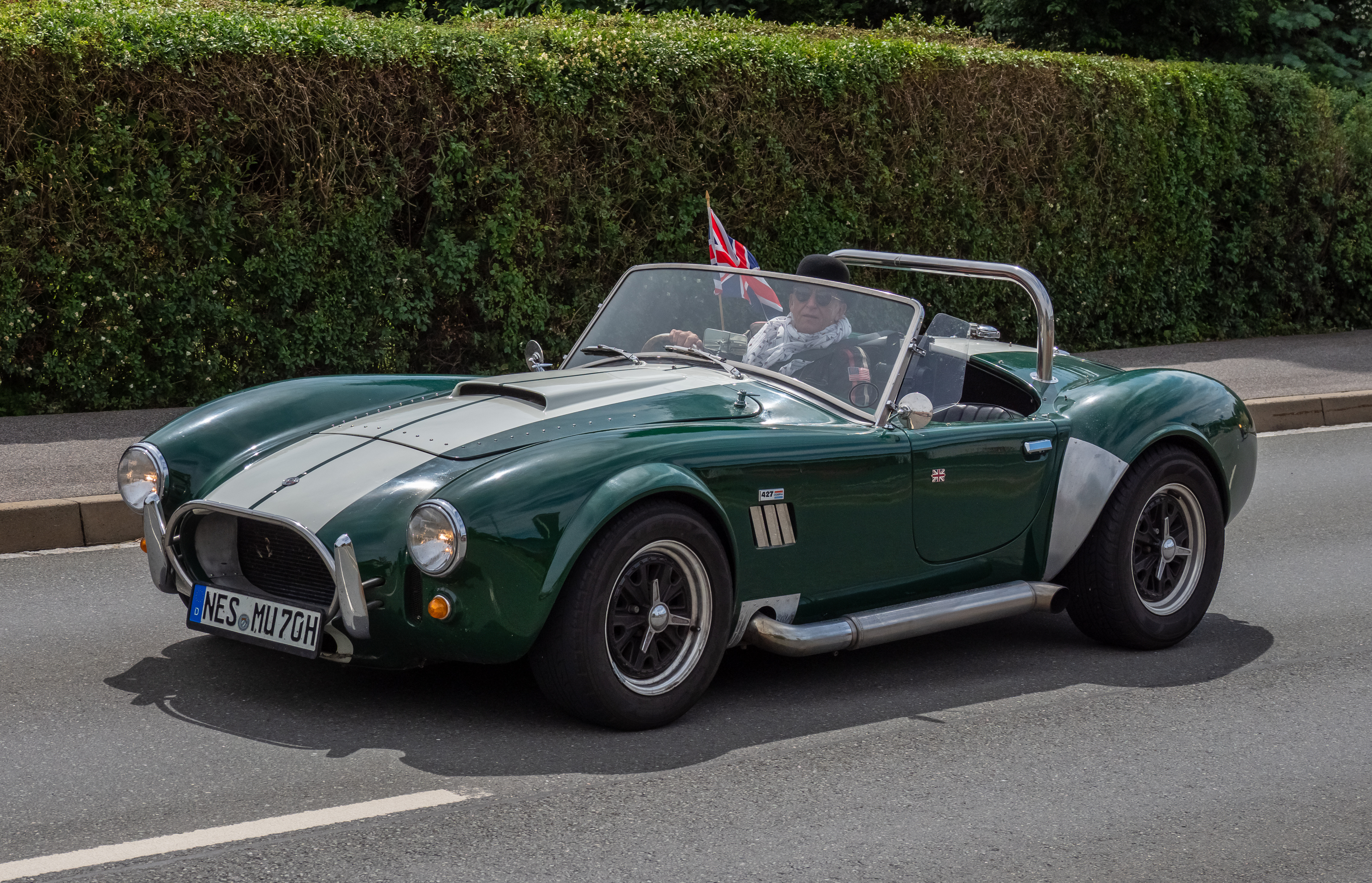 Shelby Cobra at the Oldtimertreffen Ebern